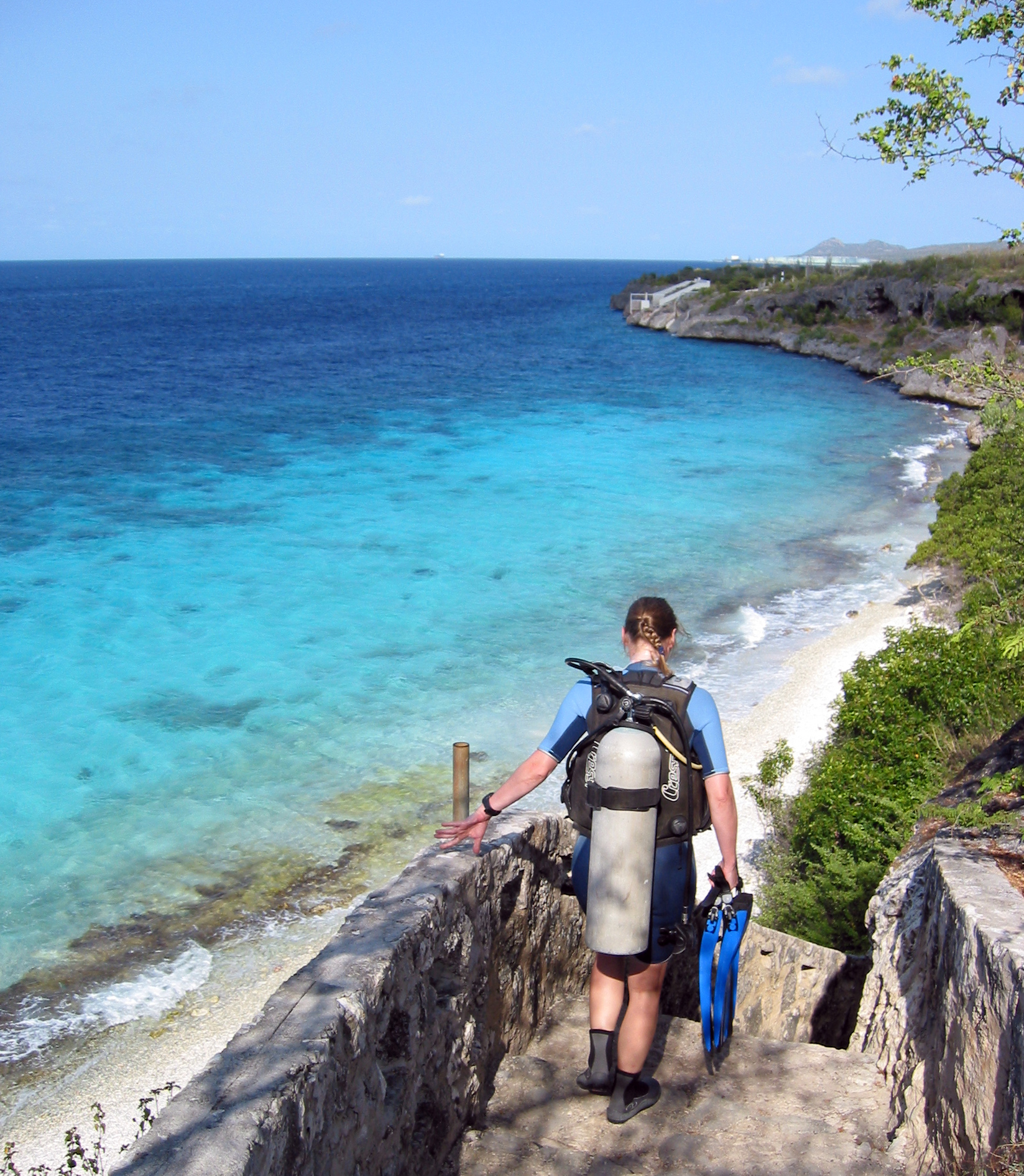 Scuba diver at the top of "1000 Steps" beach and dive site on Bonaire.